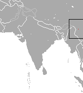 Osgood's Horseshoe Bat (Rhinolophus osgoodi) range